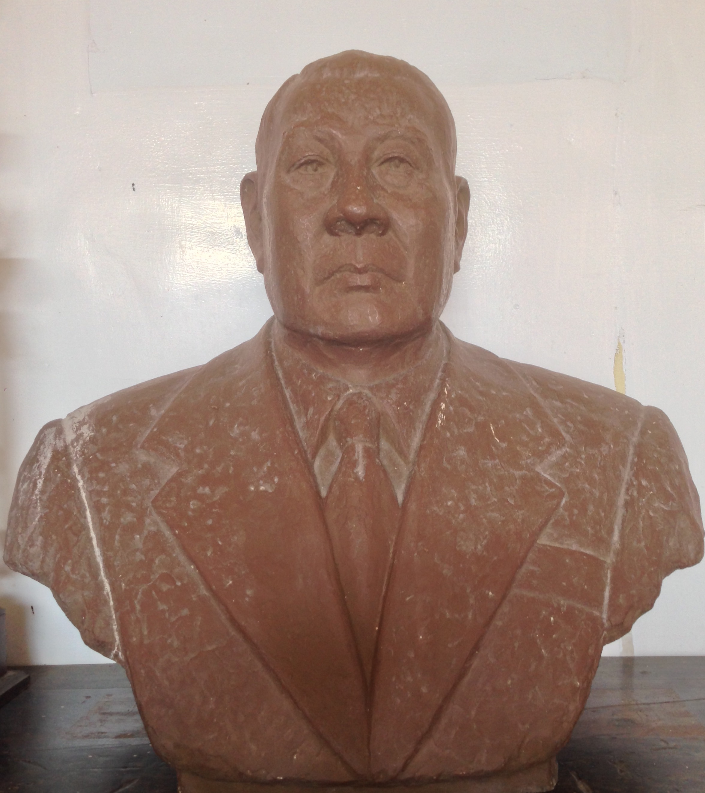 A bust of Dr. Pang-Hsing Hsu